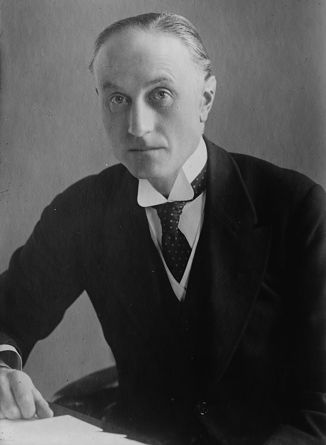 British Chancellor of the Exchequer, Sir Samuel Hoare